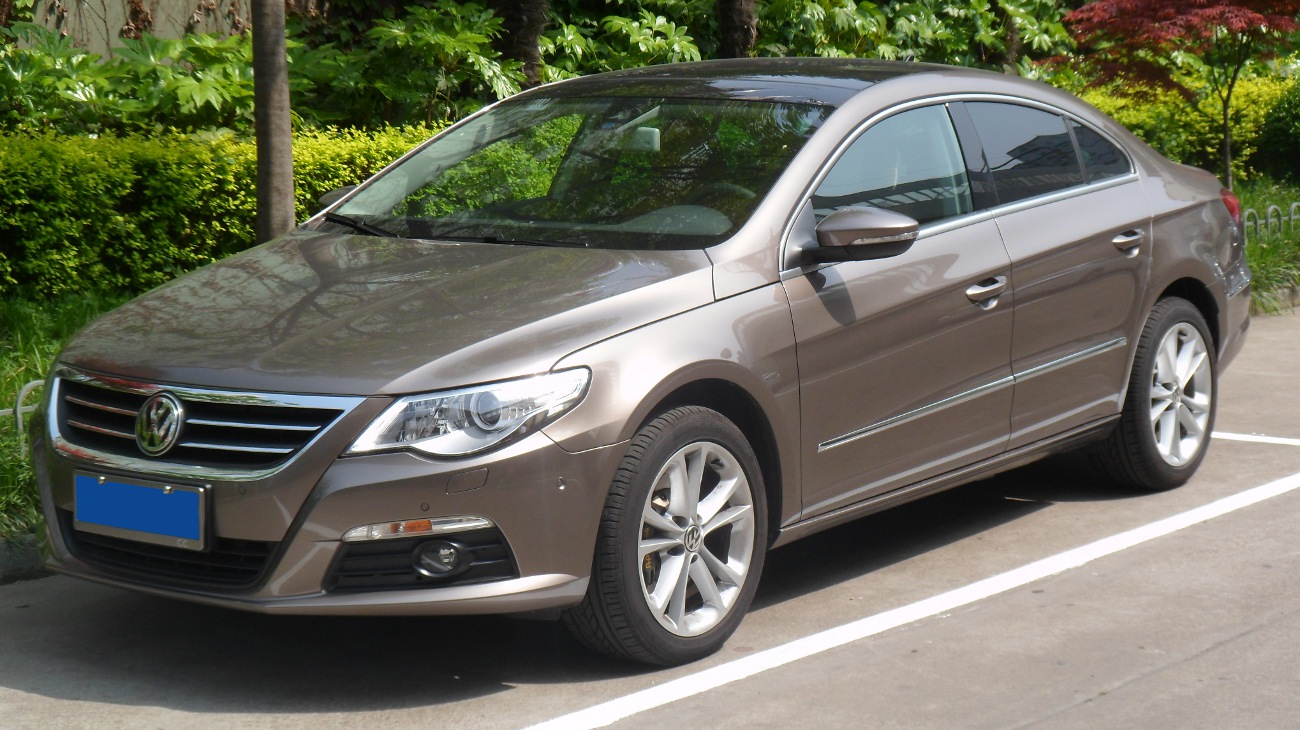 Volkswagen CC photographed in Shanghai, China.